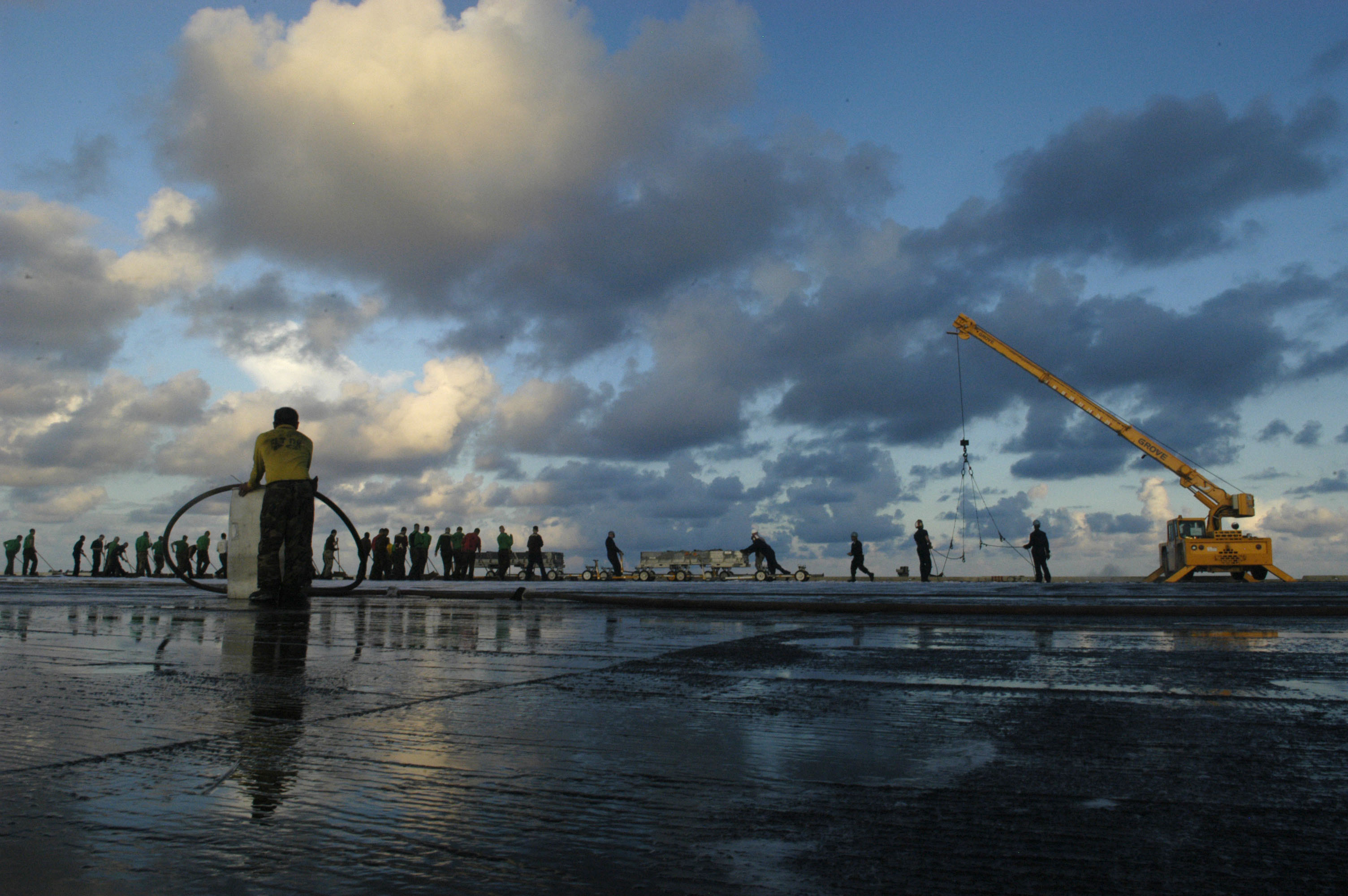 U.S. Navy Petty Officer 2nd Class Ronald Tenorio supervises sailors performing a flight deck scrub down on board USS Kitty Hawk on Aug. 18, 2005. Scrub downs are performed to remove oily waste from the flight deck.